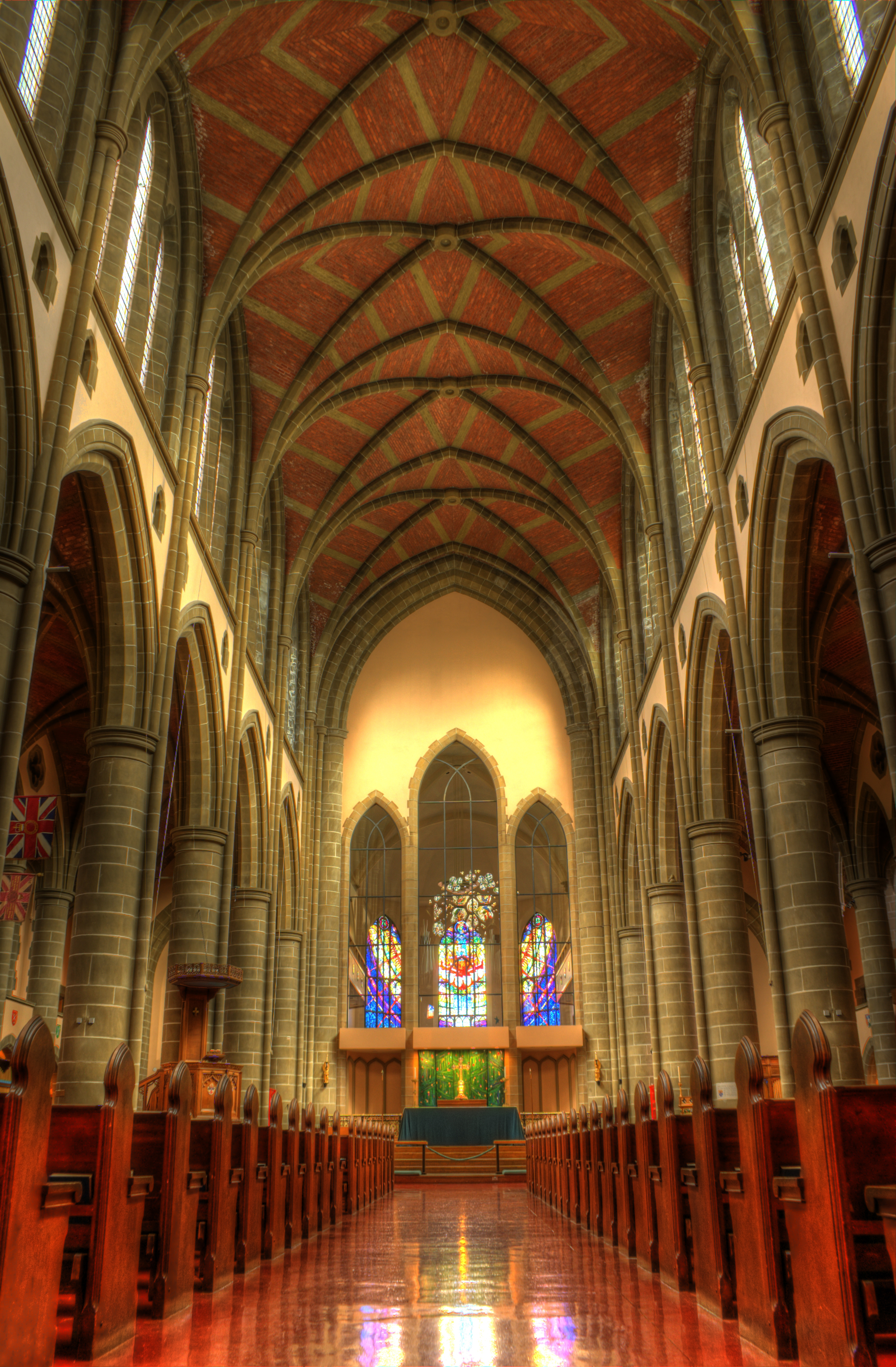 Christ Church Cathedral Interior, nave / main aisle I decided to upload this one because so many of my flickr friends told me to in my recent series of the cathedral. Check out the series here